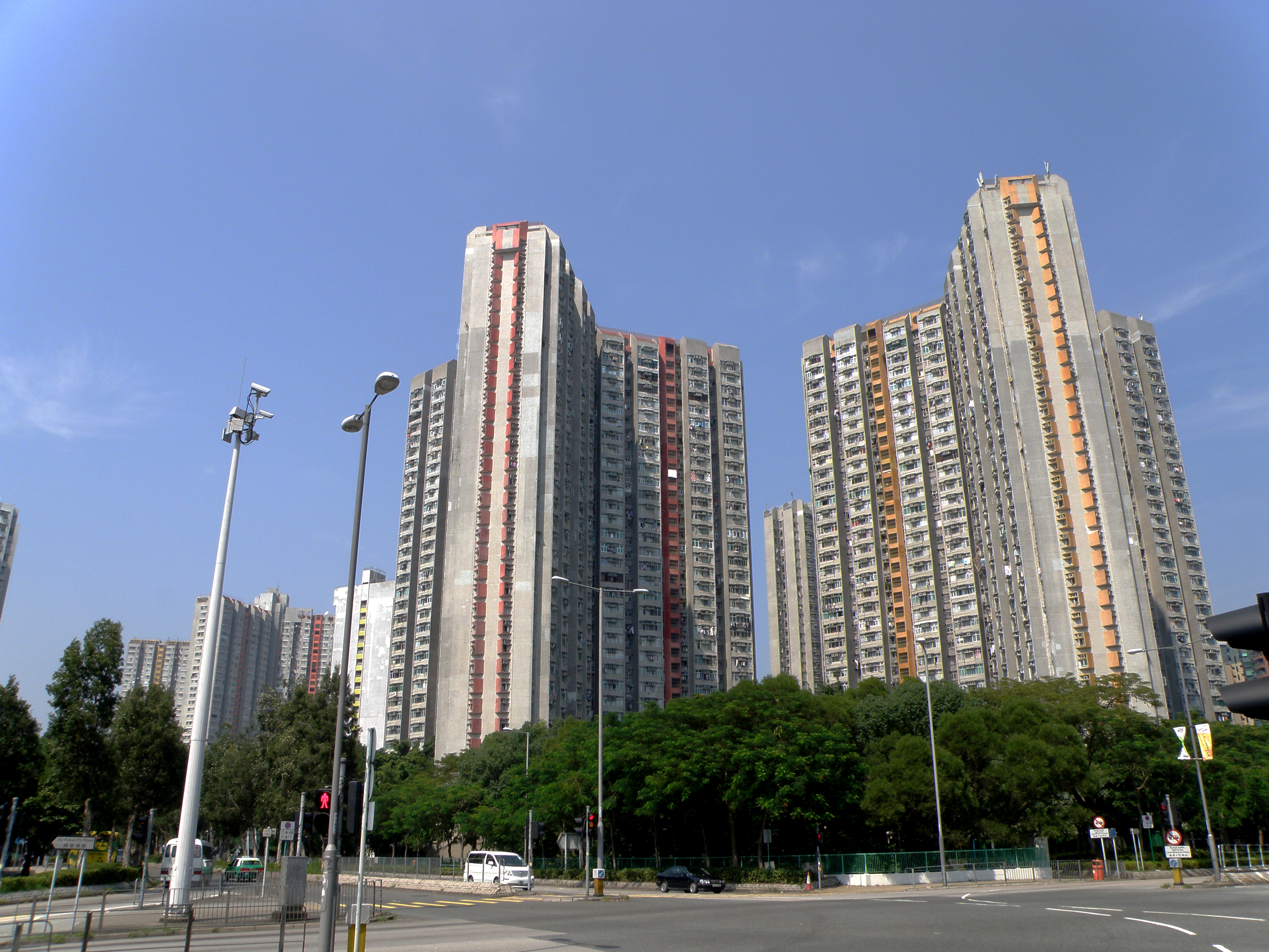 Tin Ping Estate in Sheung Shui, Hong Kong.